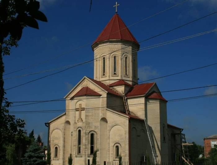 Central temple of Senaki